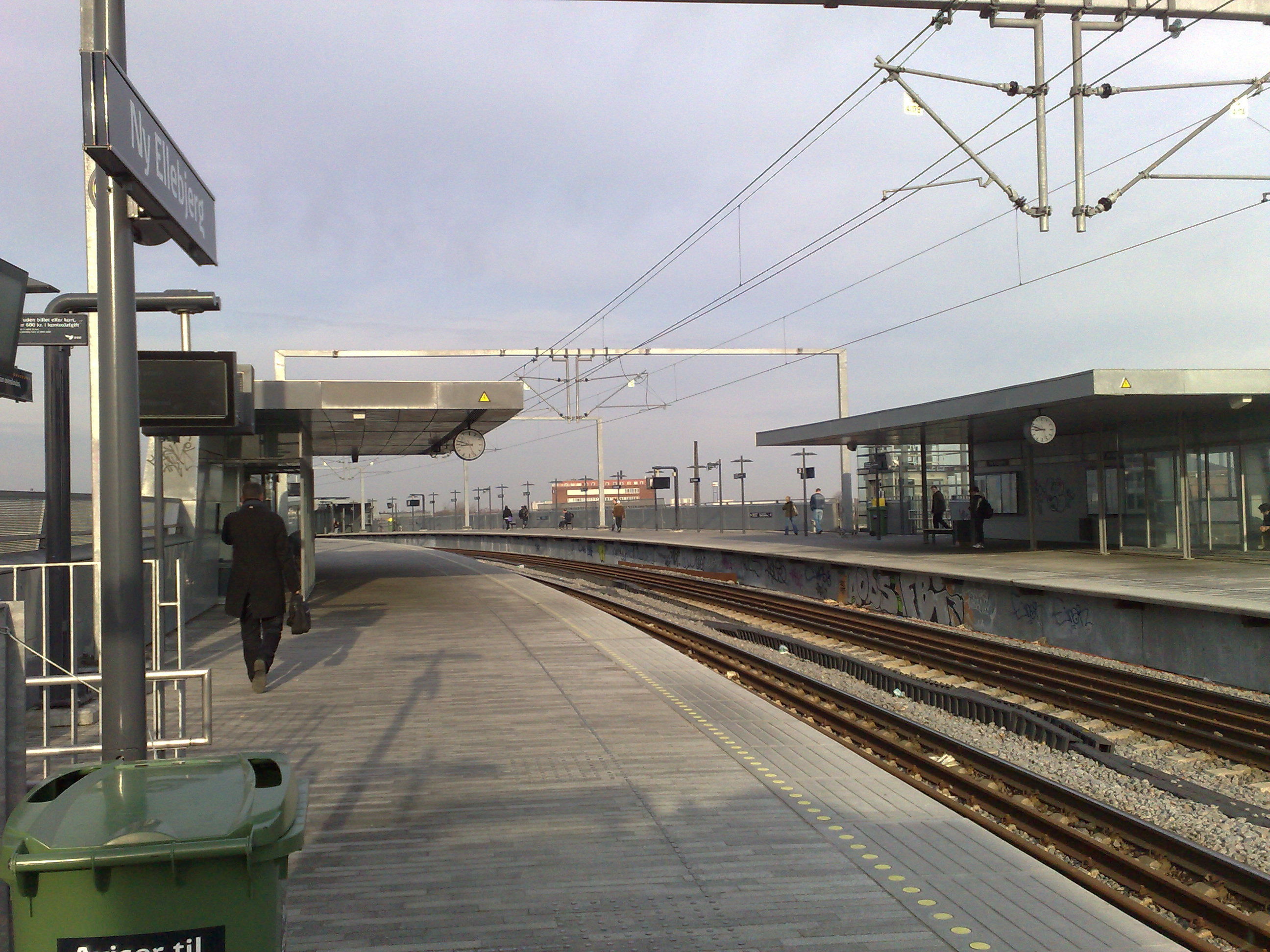 Copenhagen railway station Ny Ellebjerg platform